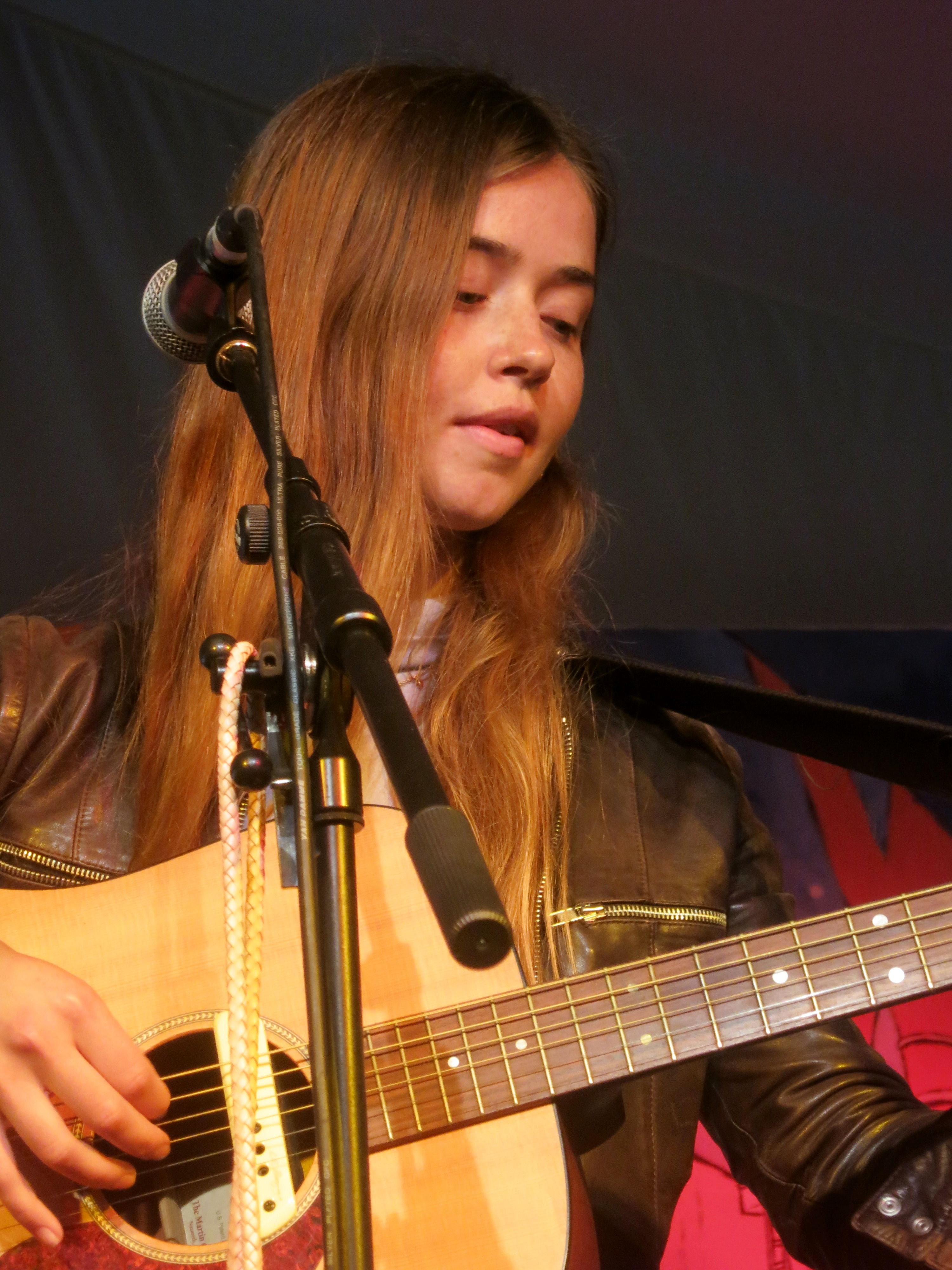 Image of the singer-songwriter Flo Morrissey performing.